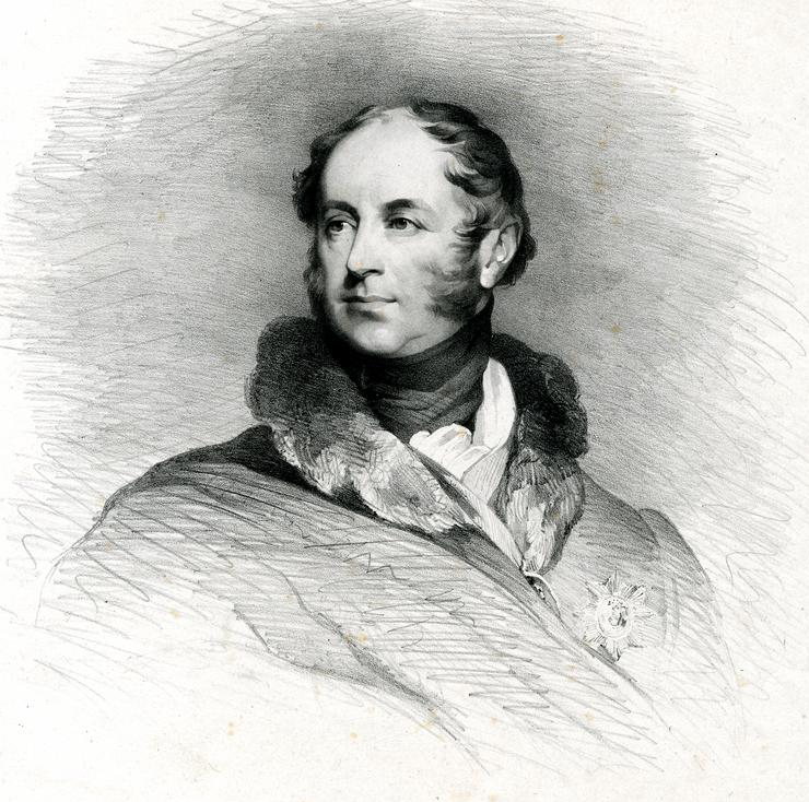 Portrait of John Willoughby Cole, 2nd Earl of Enniskillen, bust-length, directed slightly to right, with head turned to look to left, wearing heavy coat with fur collar and star, waistcoat, dark neckerchief and white frill; after Robinson. 1829 Lithograph on chine collé